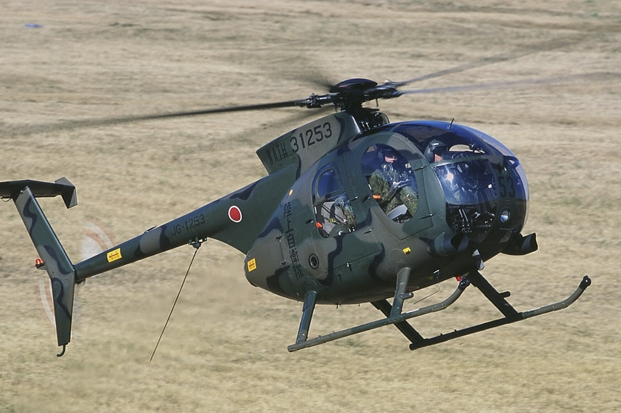 cropped version on this image